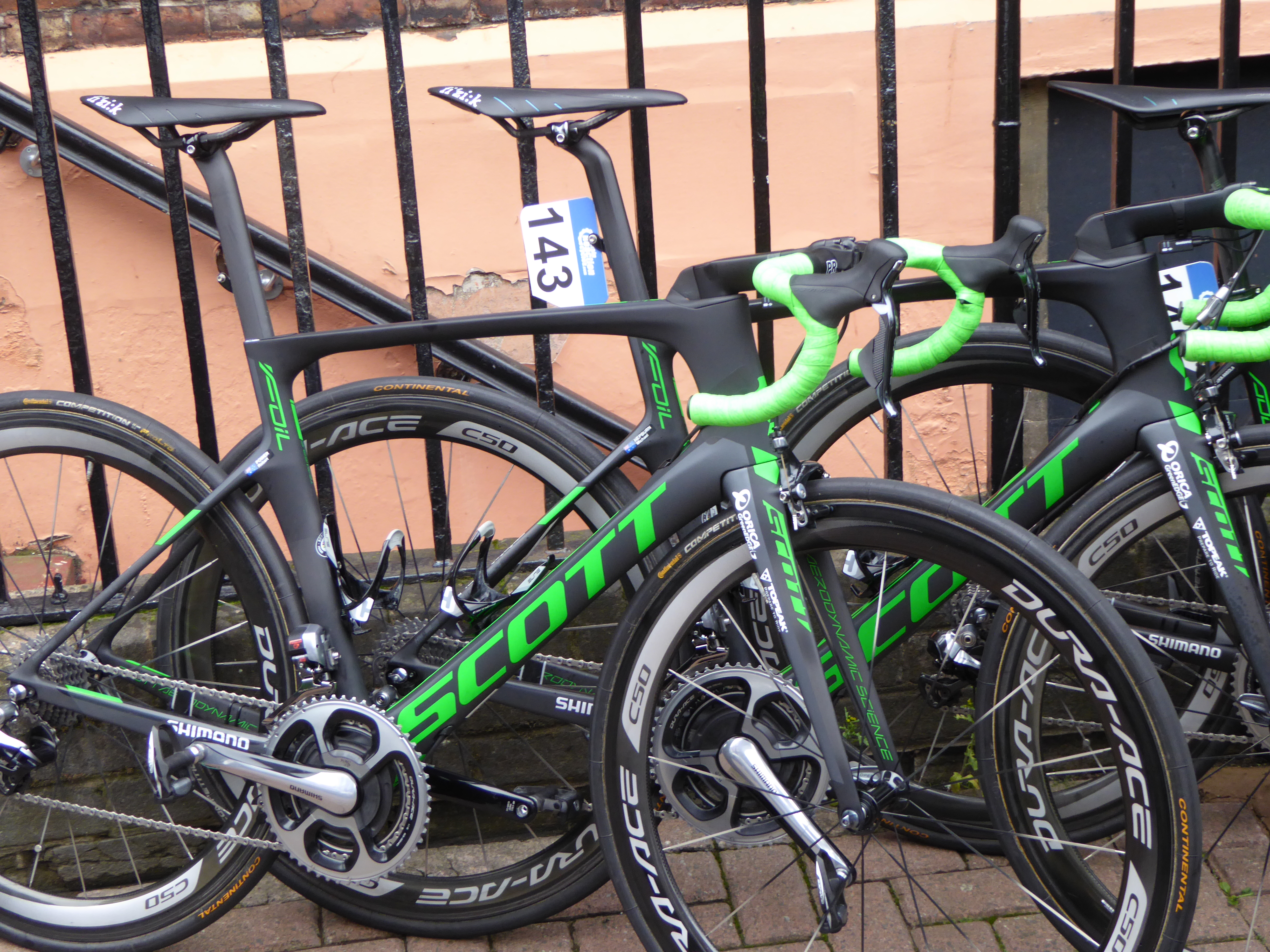 The Scott bikes of Orica-BikeExchange, pictured before Stage 2 of the 2016 Tour of Britain in Carlisle on 5 September 2016.